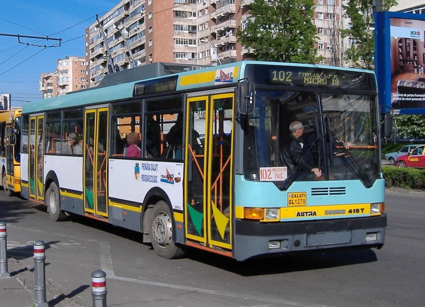 Galaţi, Romania trolleybus 1279, a 2000 Ikarus/Astra 415T, in service on route 102 only a short time after being renumbered from 223 to 1279.